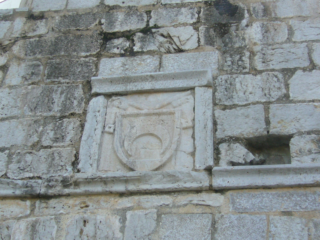 Coat of arms of the House of Luna. Picture taken at the entrance of the walls of Peñíscola